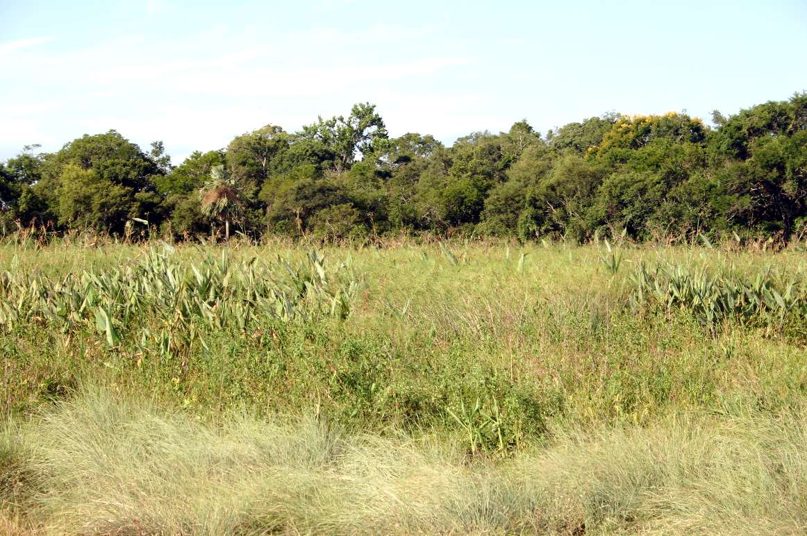 Estero, formación pantanosa con macrófitas palustres. Estacionalmente o permanentemente anegado.